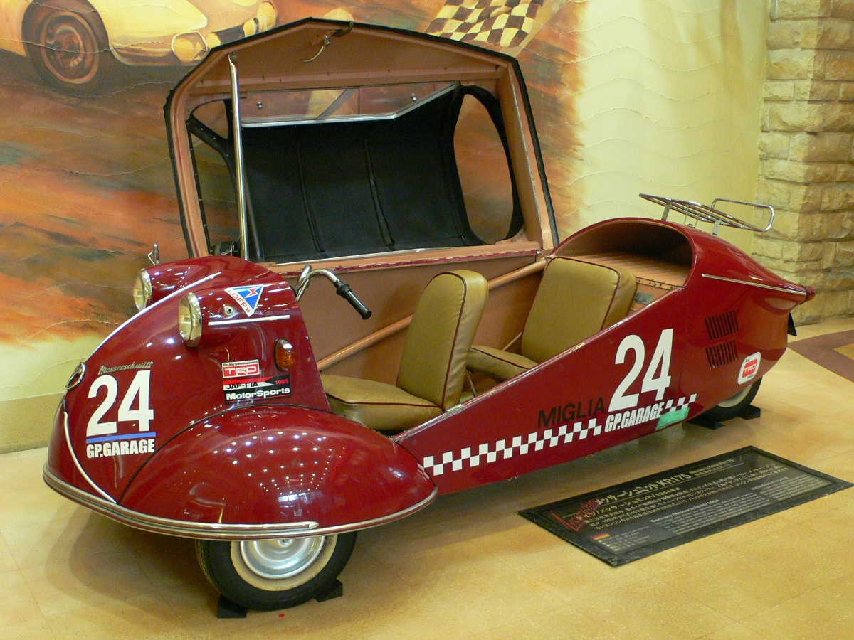 Messerschmitt_KR175 photographed in MEGAWEB.